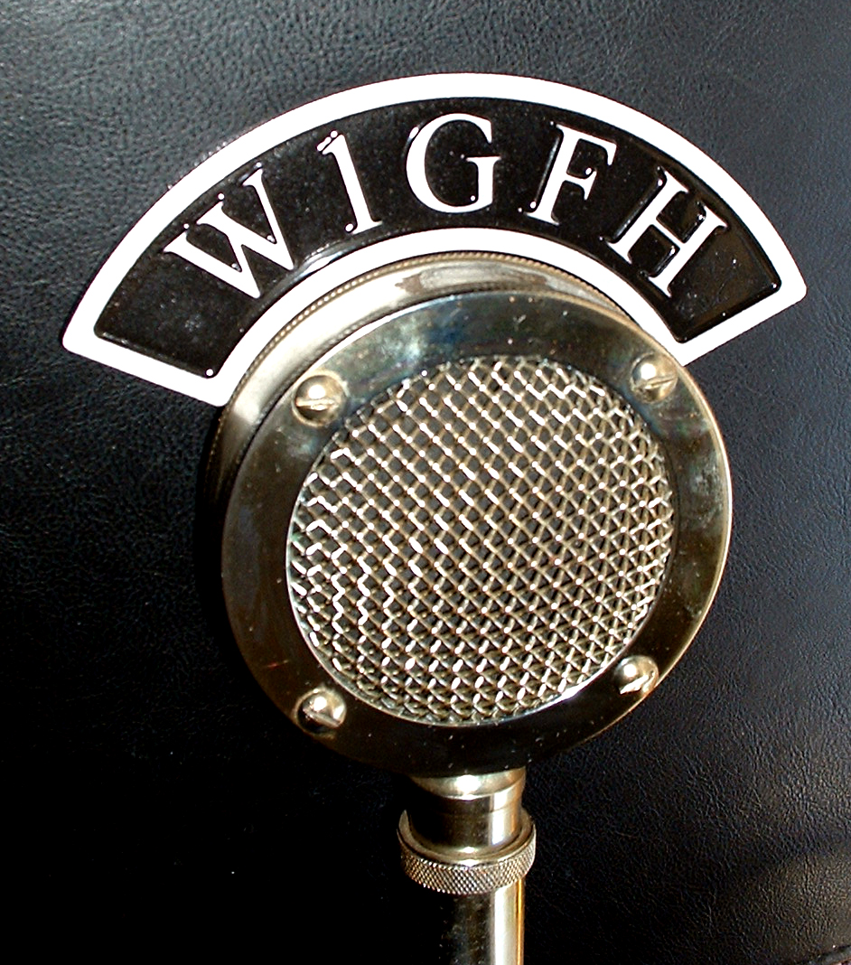 D-104 microphone head, photo taken by me -- LuckyLouie 06:27, 28 June 2007 (UTC)